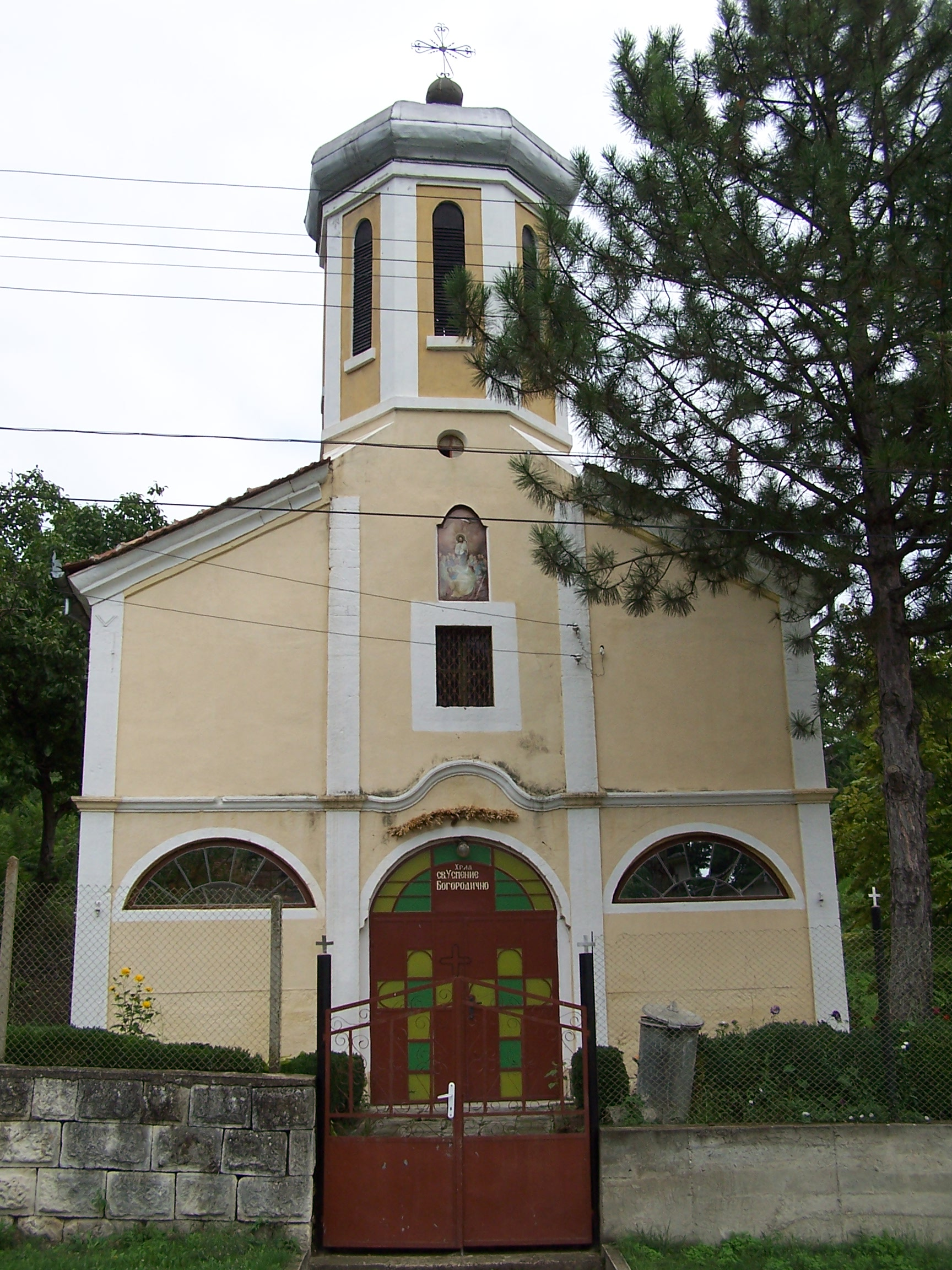 The church in the village of Katselovo, Bulgaria.